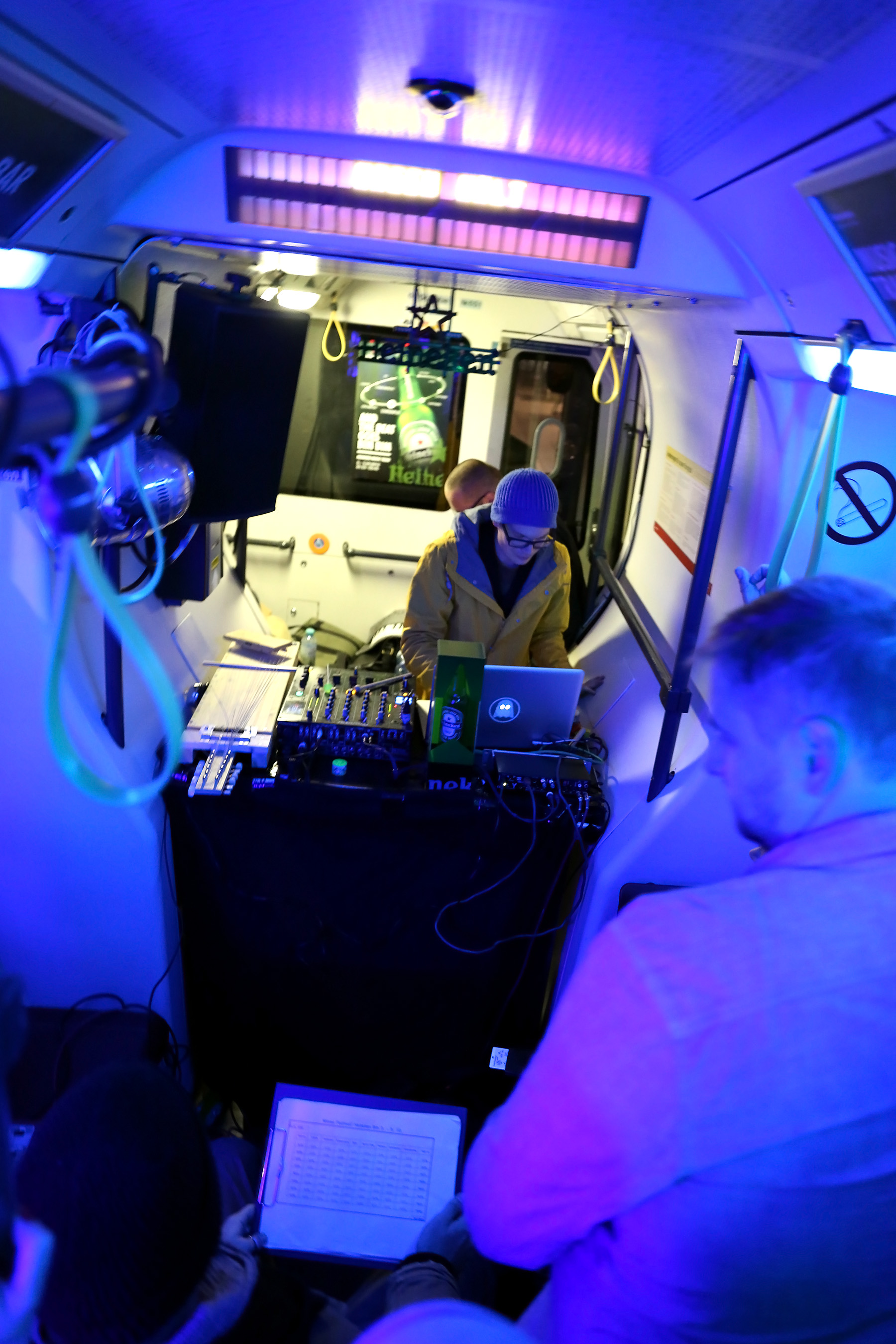 Ritornell - concert at the Music Train during Waves Vienna Music Festival & Conference 2013 in Vienna, Austria.